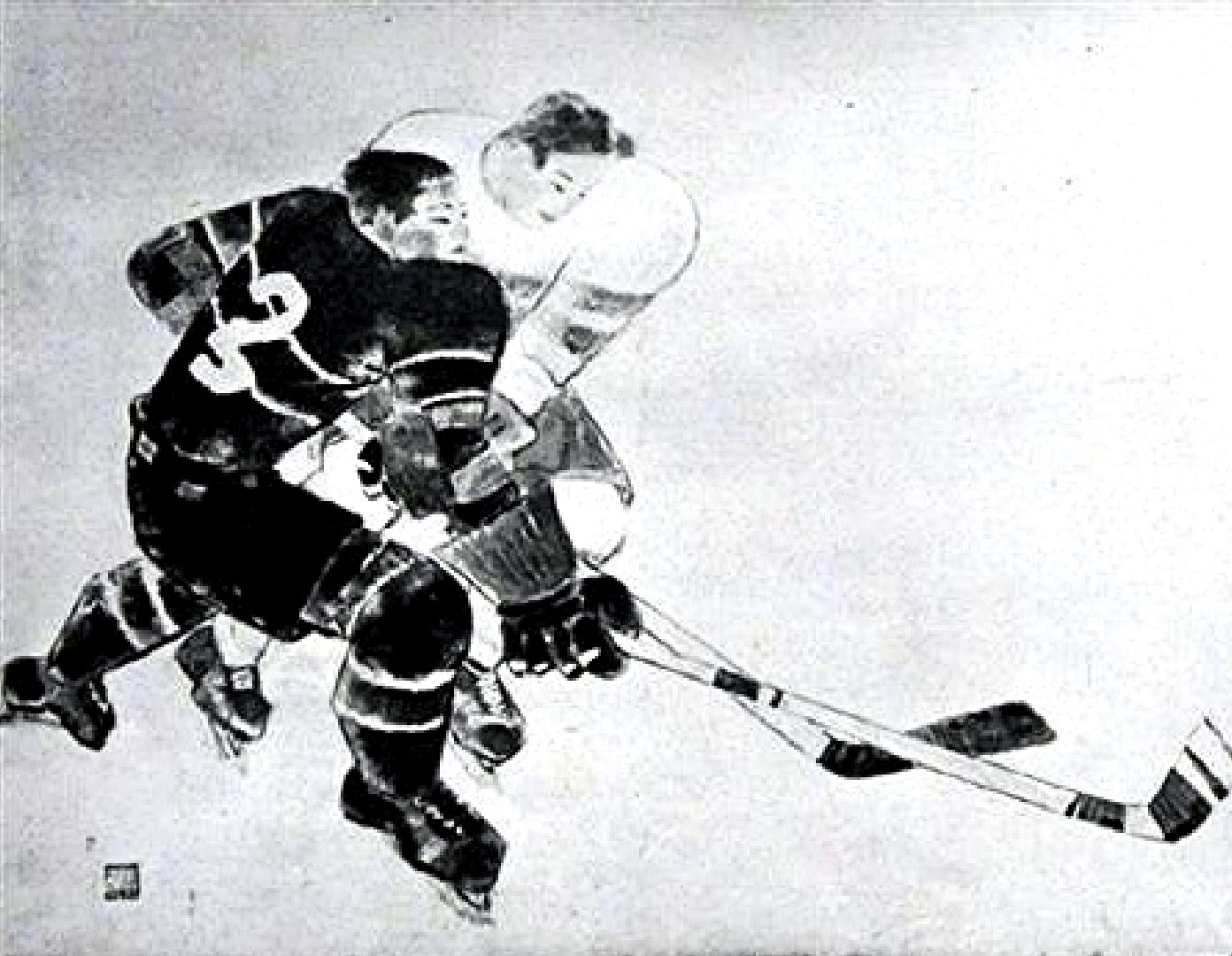 Fujita Ryūji: Eishockey